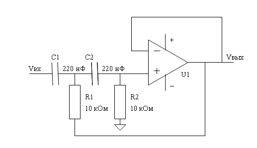 Sallen-Key filter (HP), Russian language